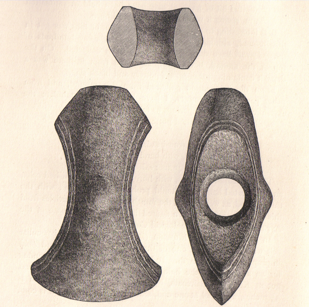 A stone axe hammer found at Montfode, Ardrossan, North Ayrshire, Scotland.